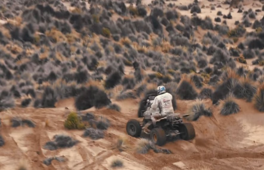 Dakar 2018. Stage 10. Salta-Belén. Czech quad pilot Josef Machácek.